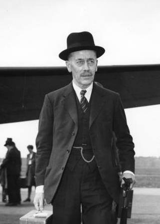 from Sir Alexander Cadogan, Permanent Under Secretary of the British Foreign Office, and Colonel David Bevan (right) of the British Army, leave Gatow Airport in Berlin, Germany for the Potsdam Conference area. From Potsdam album, 1945. Date: July 15, 1945 Institutional Creator: United States Army Signal Corps